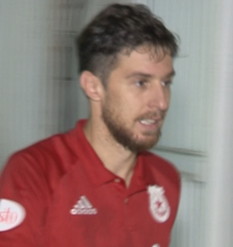 Portuguese footballer Ruben Pinto